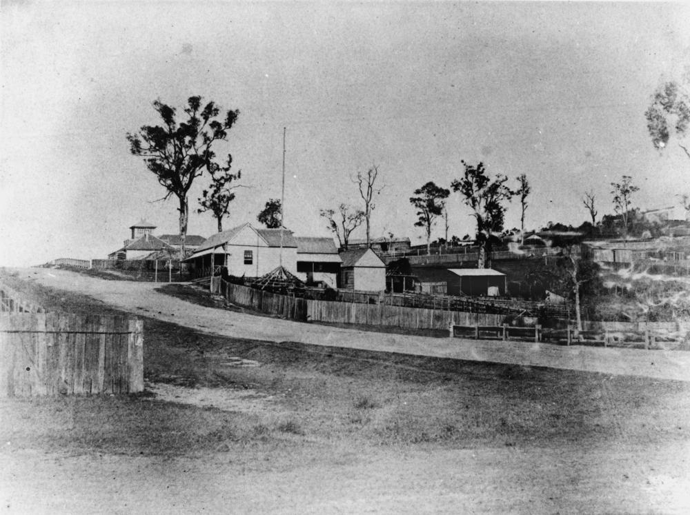 Early photograph of the suburb of Herston, Brisbane in 1869 Bowen Bridge Road from corner of O'Connell Terrace. Royal Brisbane Hospital is in the distance and Bowen Bridge Hotel is to its right further down the hill, (Description supplied with photograph.).